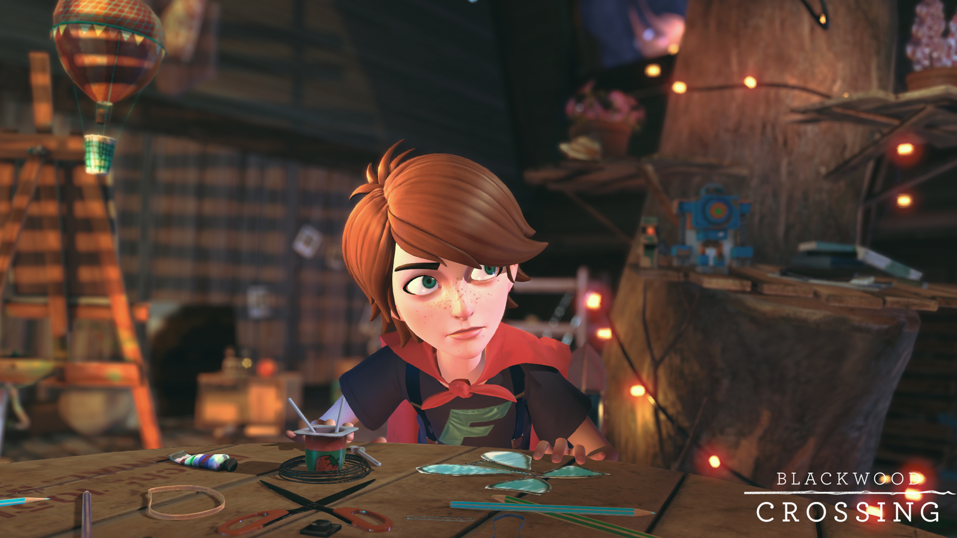 Screenshot of video game Blackwood Crossing